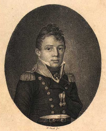 Peter Buhl (1789-1812), Danish naval officer